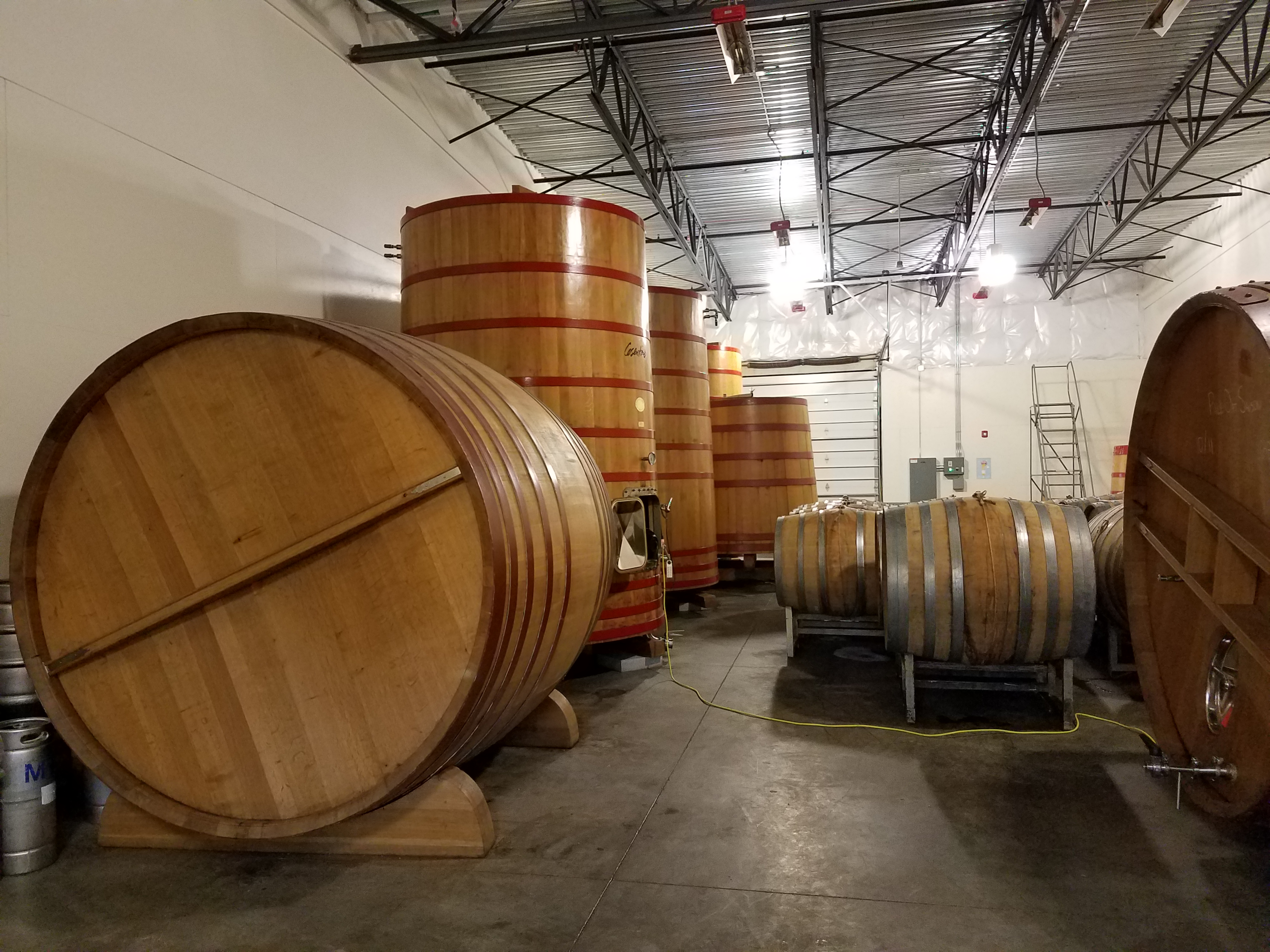 Production facility at de Garde Brewing in Tillamook, Oregon, showing foeders.